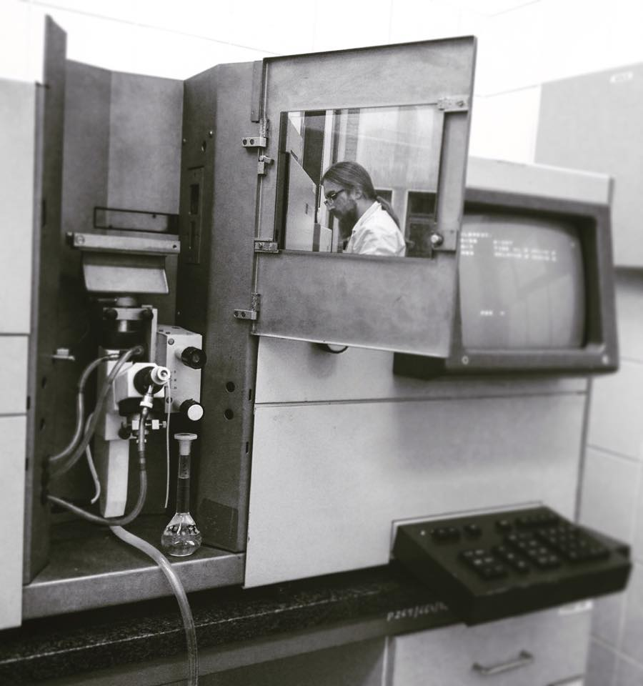 The photo represents a scientist preparing samples calibration curve solutions for Atomic Absorption Spectroscopy, whose reflection can be seen in the glass window of the AAS's flame atomizer cover door.